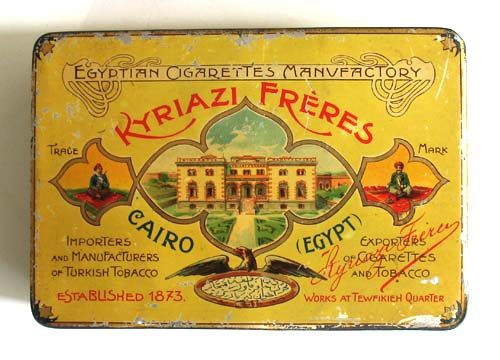 Kyriazi Frères (cigarettes factory)